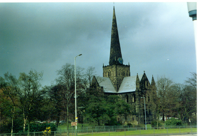 Darlington. An interesting-looking Church. Of Norman origin, perhaps??